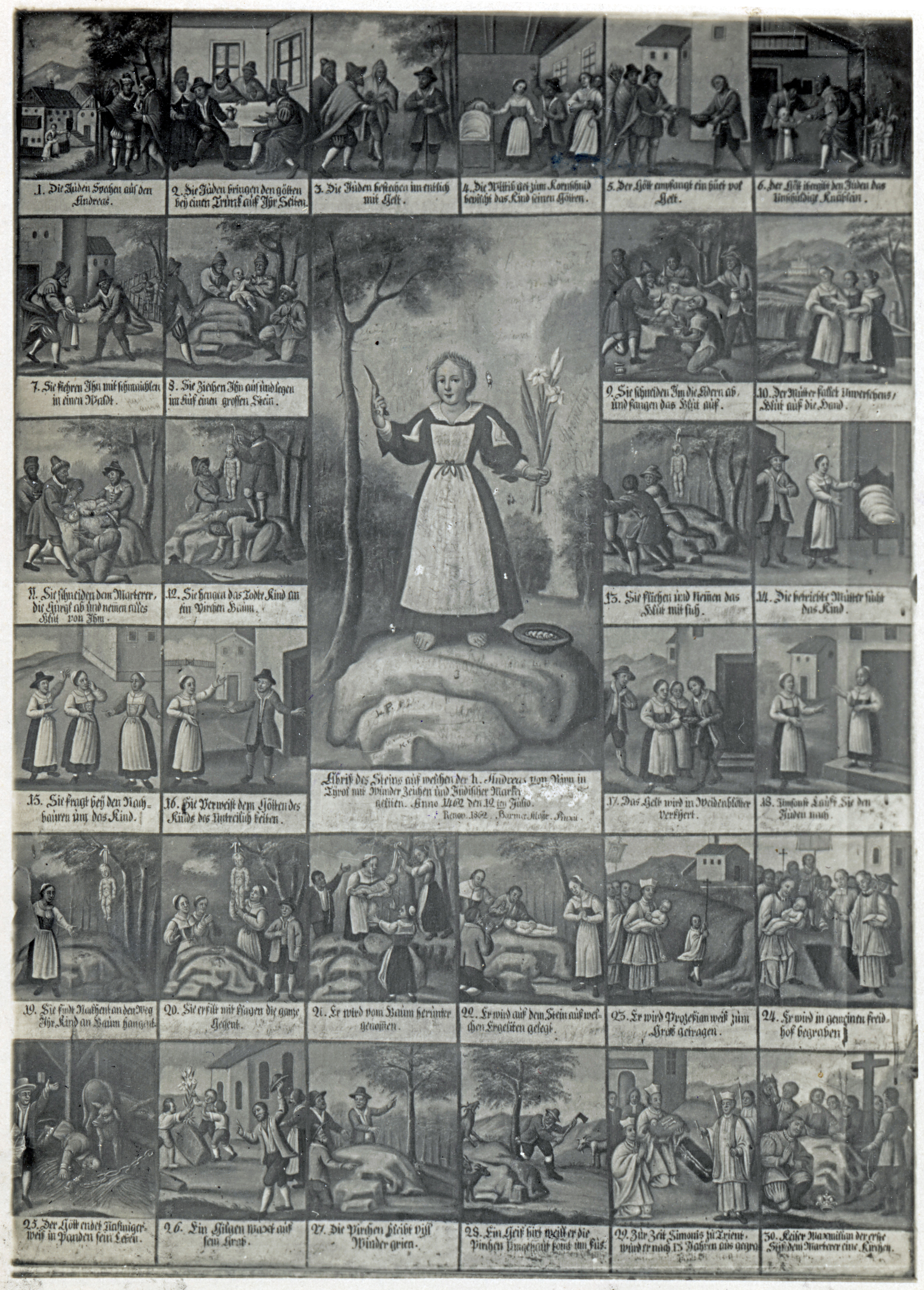 Jewish ritual murder story as depicted in church of Judenstein, Austria